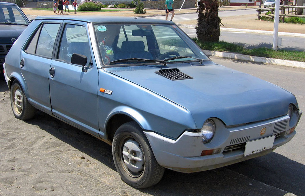 1982 Fiat Ritmo 65 CL in Chile